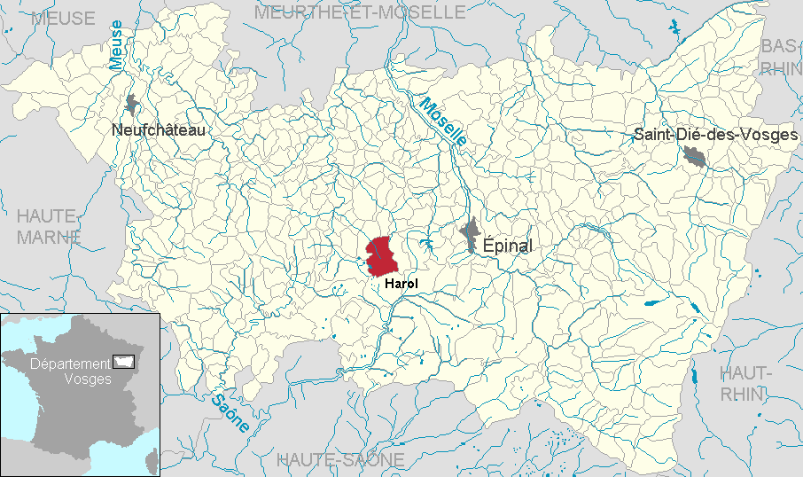 Harol in the department of Vosges, Lorraine, France